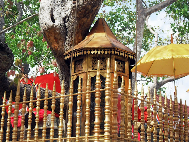 Golden Fence at Jaya Sri Maha Bodhi in Anuradhapura, Sri Lanka